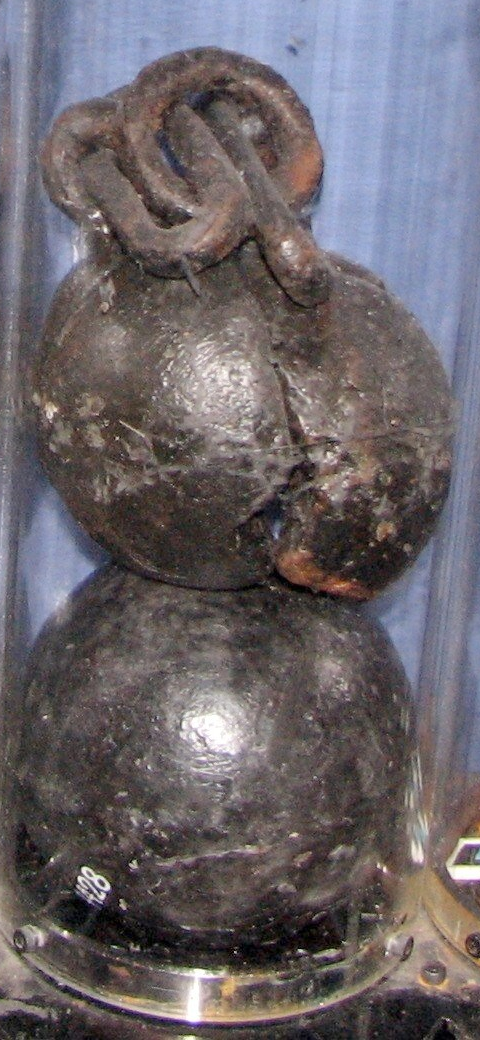 Chain-shot recovered from the Vasa, sunk in 1628. the shot's components tumble in the air, and the connecting as much as six feet of chain fully extends and sweeps through the sails, masts, and rigging.